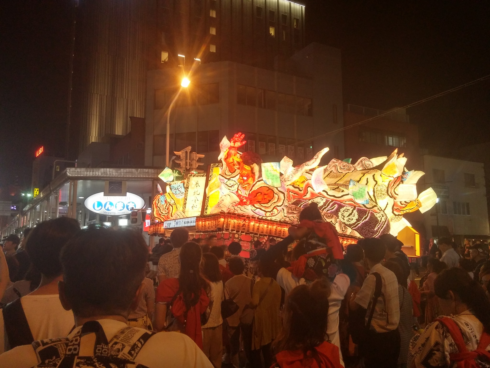 Aomori Nebuta Festival 2019 on Shinmachi Street